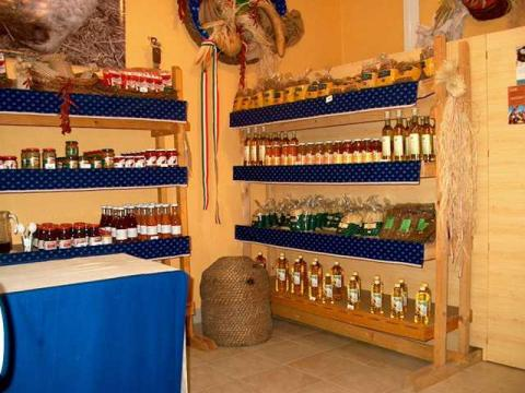 Bio store, Kecskemét Hungary)